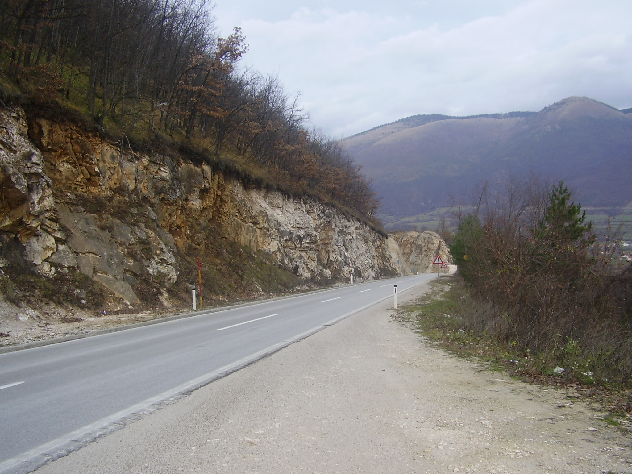 Road near Uskoplje Magistralna cesta (Uskoplje - Rama)